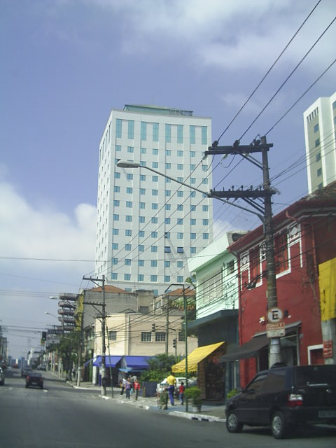 District of Ipiranga, in São Paulo City.